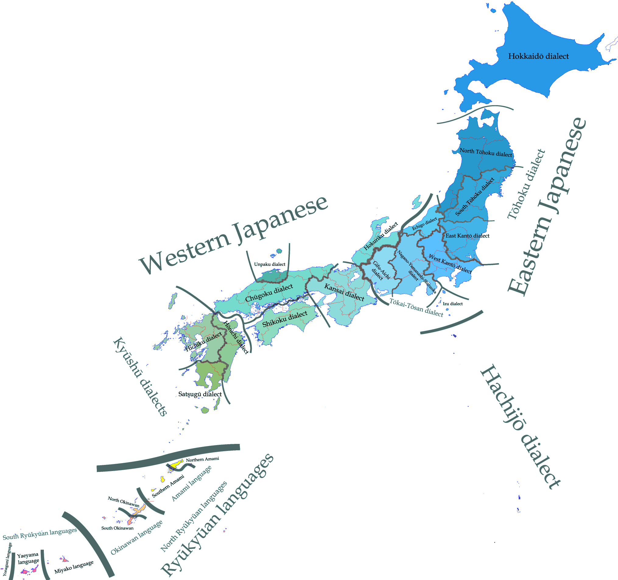 Map of Japanese dialects (English version)